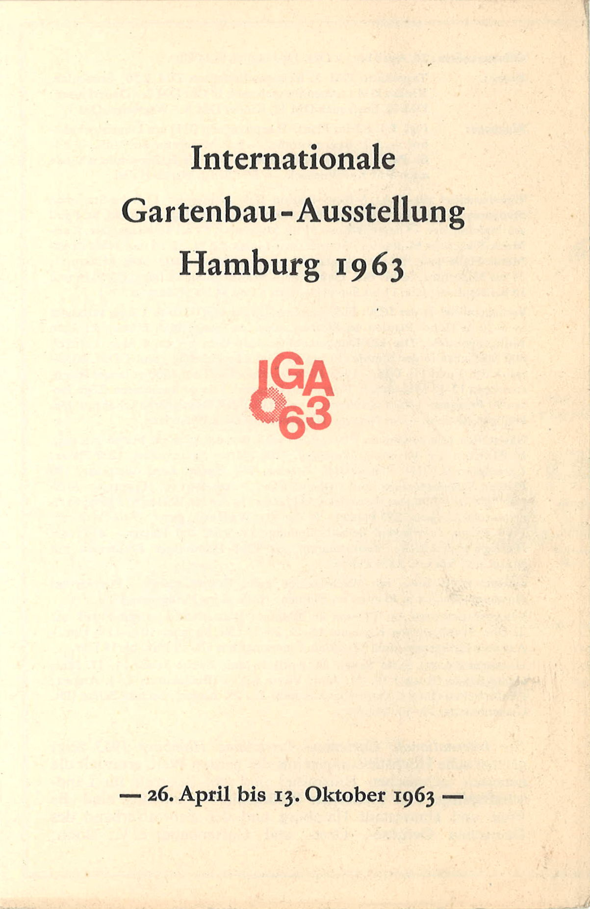 Frontpage of the IGA supplement to Baedeker's Hamburg 1963